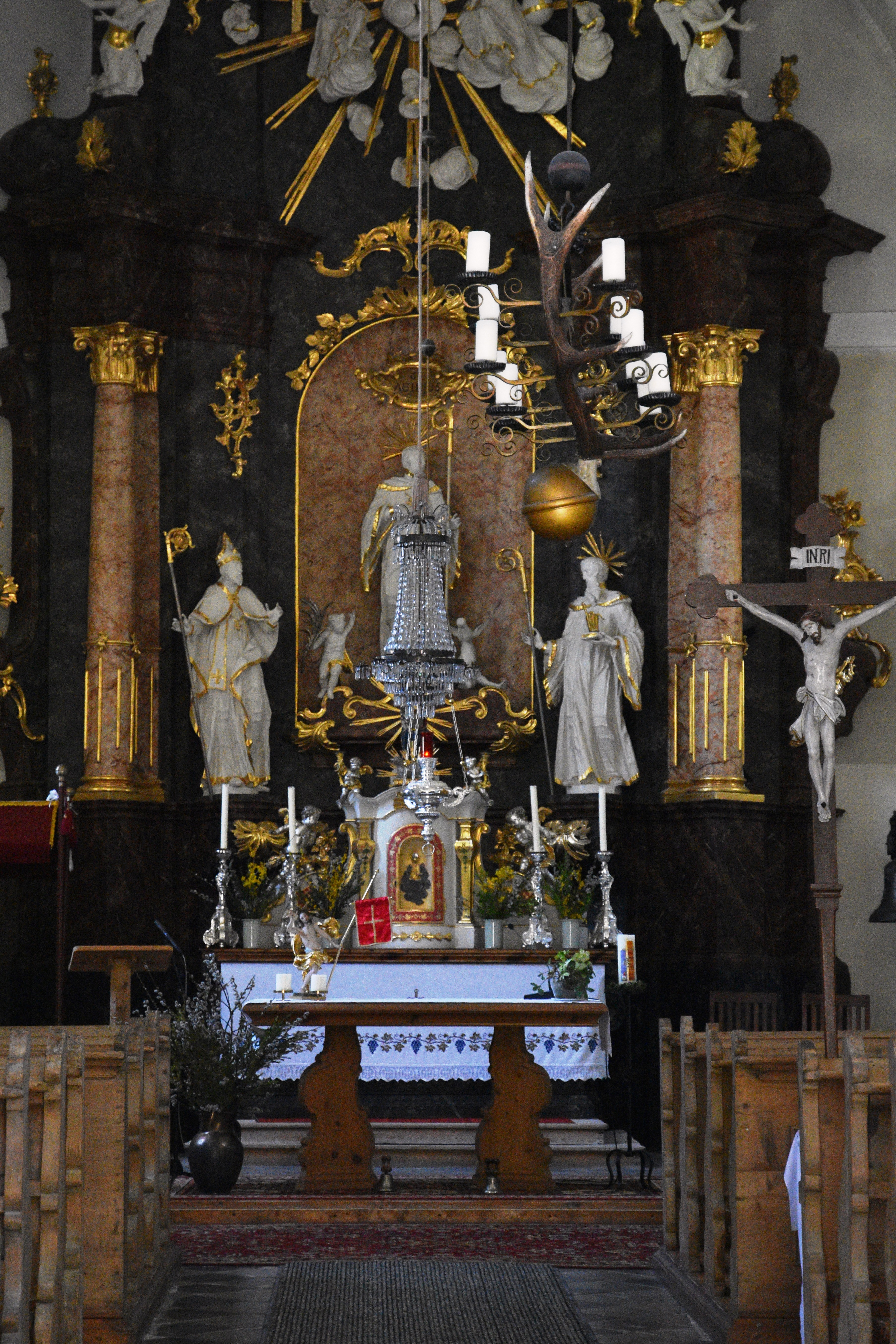 Church Filialkirche hl. Ägydius, St. Ilgen Interior